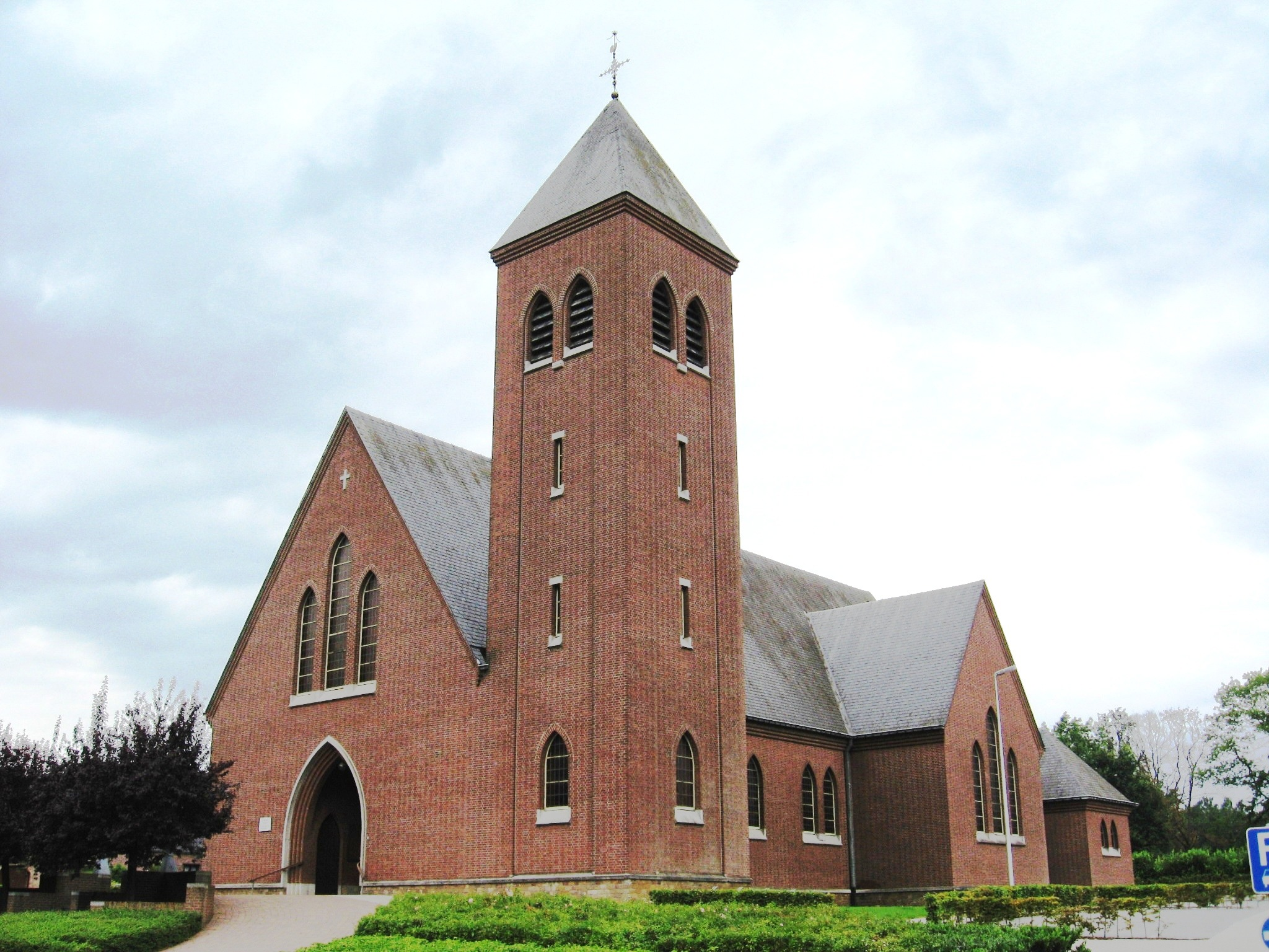 Church of Saint Roch in Lummen (Genenbos), Limburg, Belgium